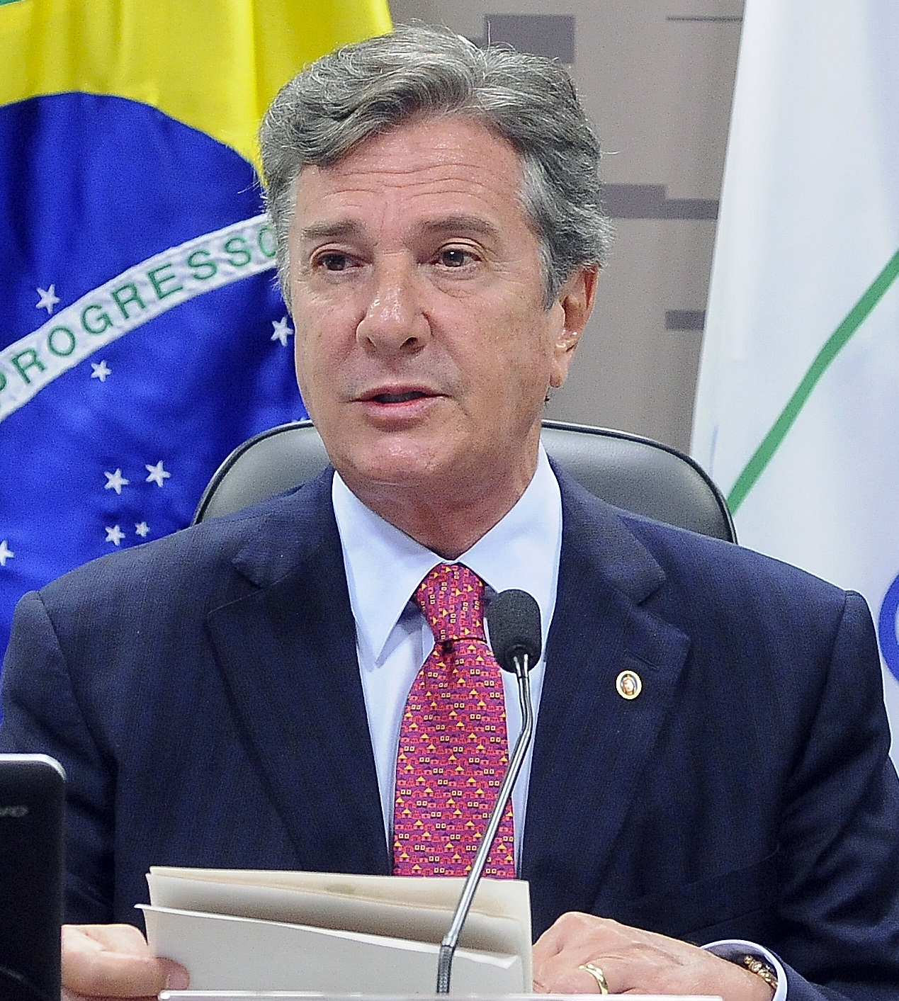 Senator Fernando Collor